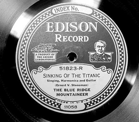 Record label of "Sinking of the Titanic" by Ernest Stoneman, Edison Diamond Disc 51823-R, released October 1926. Photographed by Thomas Edison National Historical Park, National Park Service.